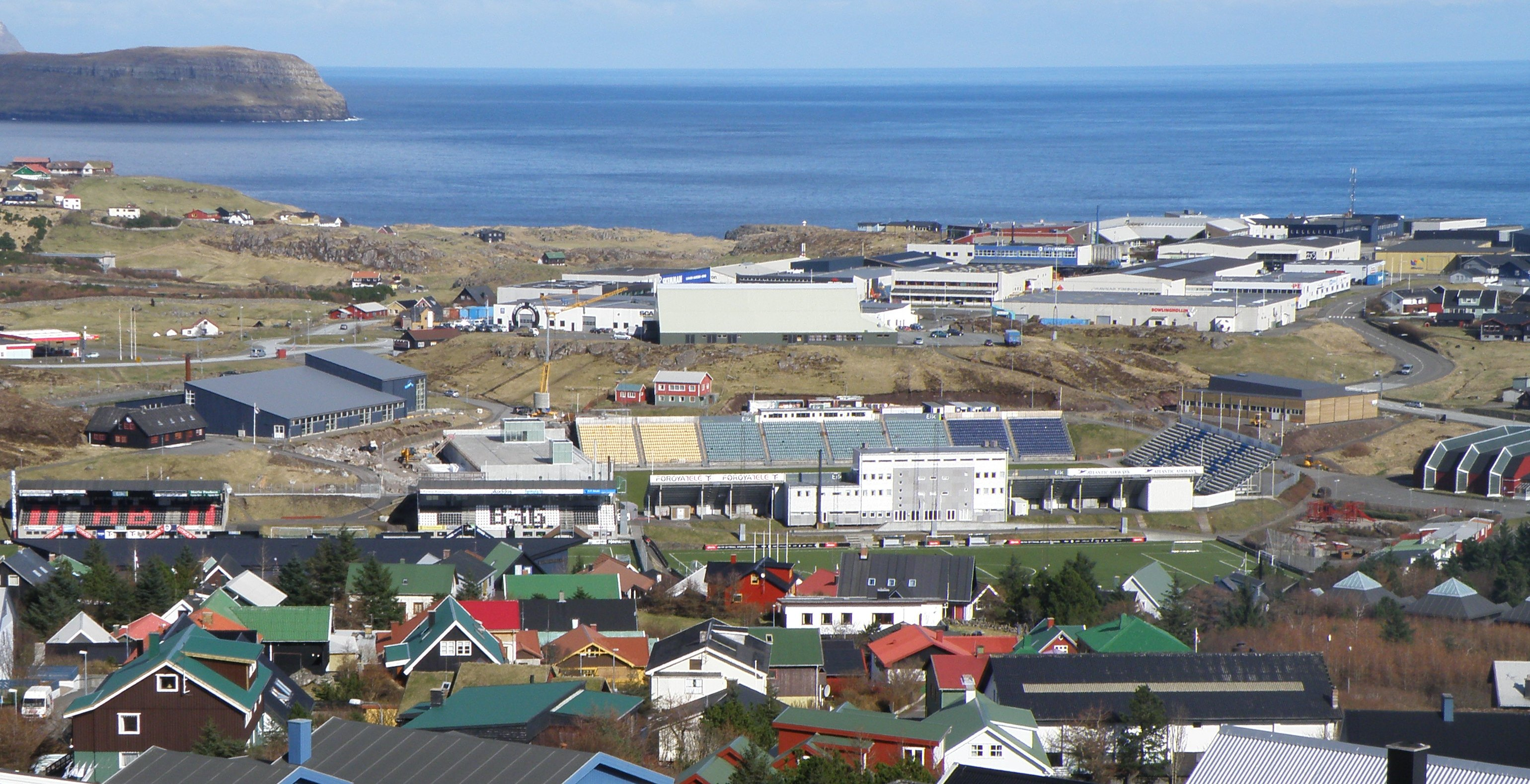 View over Tórshavn, the capital of the Faroe Islands. The sports area of Tórshavn is in the center of the photo in Gundadalur and on Hálsi. There is the Sports Hall on Nabb (also called Høllin á Hálsi). To the left on the photo, just above the football field (Ovari vøllur) is the Swimming Hall of Tórshavn. Another sports hall is to the right on the photo, a red and black building, just a part of it is visible. There are three football fields: Tórsvøllur is the National Football Stadium of the Faroe Islands (there is another one in Toftir on Svangaskarð Stadium). Tórsvøllur is just above another football field, which is called Niðari Vøllur and just below the Sports Hall on Nabb. The football clubs in Tórshavn: HB Tórshavn and B36 Tórshavn have their home matches on Ovari Vøllur in Gundadalur, the seats have their names "written" on them. HB has black and white seats and B36 has white and black seats, which is just like the colours of their sports clothing. Føroyskt: Útsýni av Oyggjarvegnum yvir Havnina. Ítróttarøkið í Havn sæst á myndini: Ítróttarhøllin á Hálsi (ella á Nabb, sum hon eisini verður rópt). Gundadalshøllin sæst longst móti høgru mitt á myndini, ella ein partur av henni. Í Havn eru 3 fótbóltsvallir, sum síggjast nøkulunda á myndini, Niðari Vøllur sæst best, hann er longst móti høgru, tætt við Gundadalshøllina og beint niðanfyri Tórsvøll. Tórsvøllur er beint niðanfyri høllina á Nabb. Ovari Vøllur í Gundadali er tann vøllurin, sum bæði HB og B36 brúka til teirra heimadystir, hann er har sum setrini skriva HB og B36 í hvør sínum skýli og við litunum hjá feløgunum. HB hevur reyð og svørt setur meðan B36 hevur hvít og svørt setur. Svimjihøllin í Havn sæst eisini á myndini, tað er myrkabláði bygningurin vinstrumegin Tórsvøll.